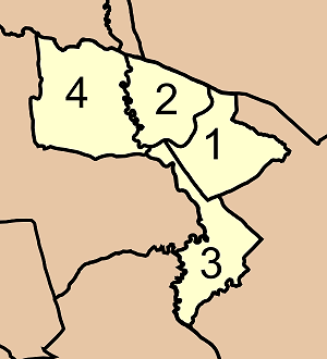 Map of Chaloem Phra Kiat district, Nakhon Si Thammarat province, Thailand, with the communes (tambon) numbered. Chian Khao (เชียรเขา) Do Not Ro (ดอนตรอ) Suan Luang (สวนหลวง) Thang Phun (ทางพูน)